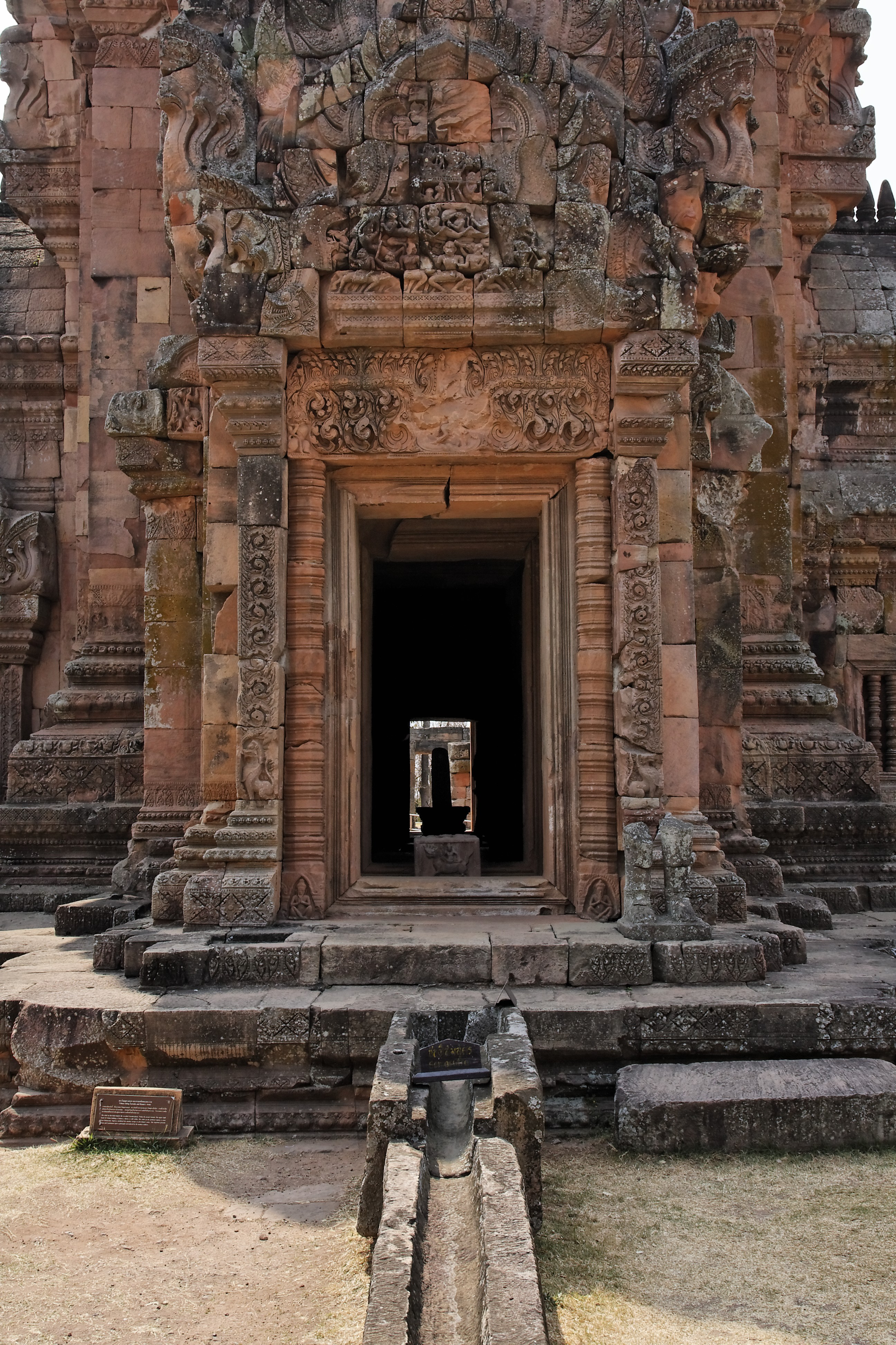 Prasat Phnom Rung, Thailand